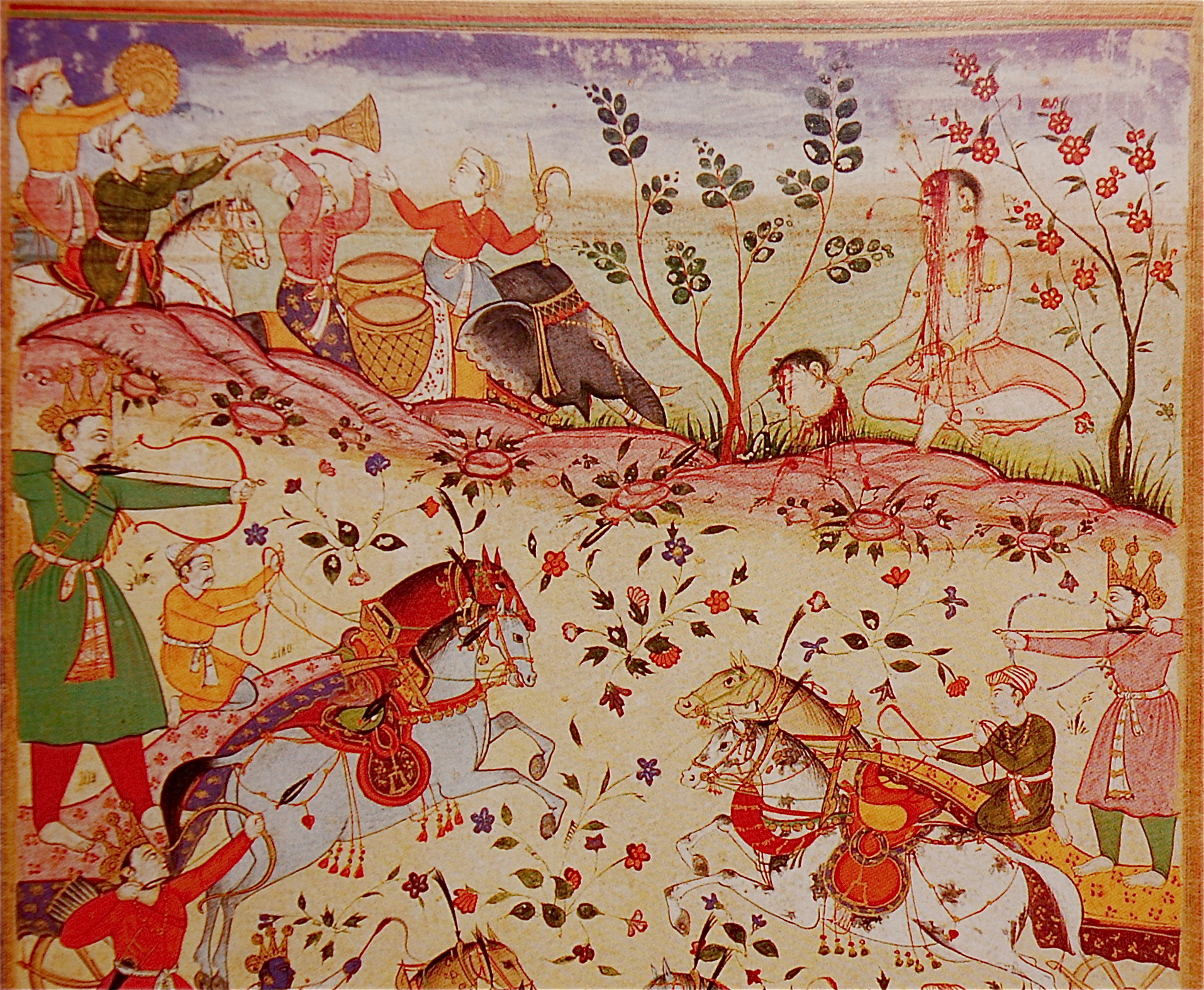 Nothern India 1598-99, Persian reconstruction,(1605) Razmnama.The book of War